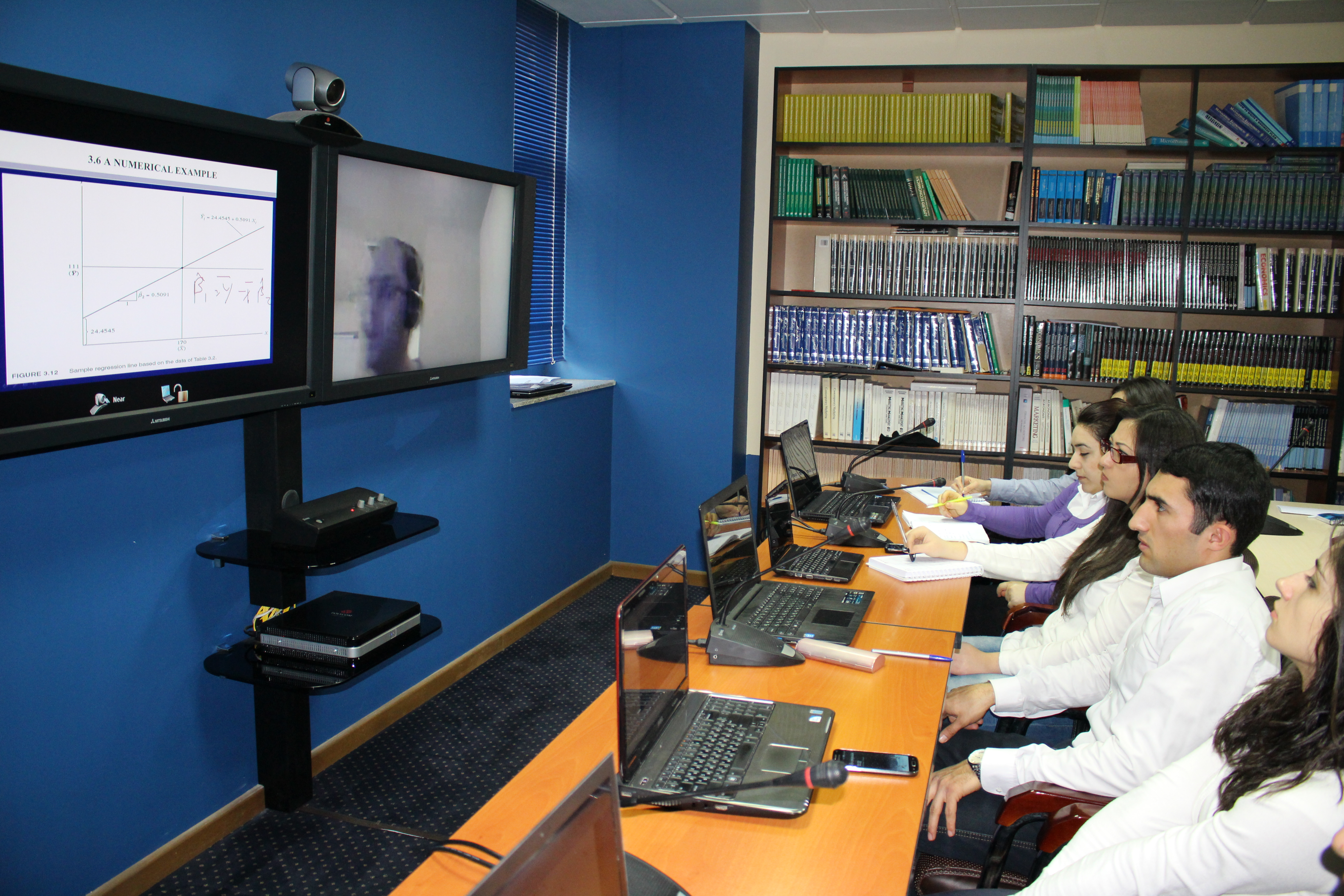 ATC students in the video conference classroom.